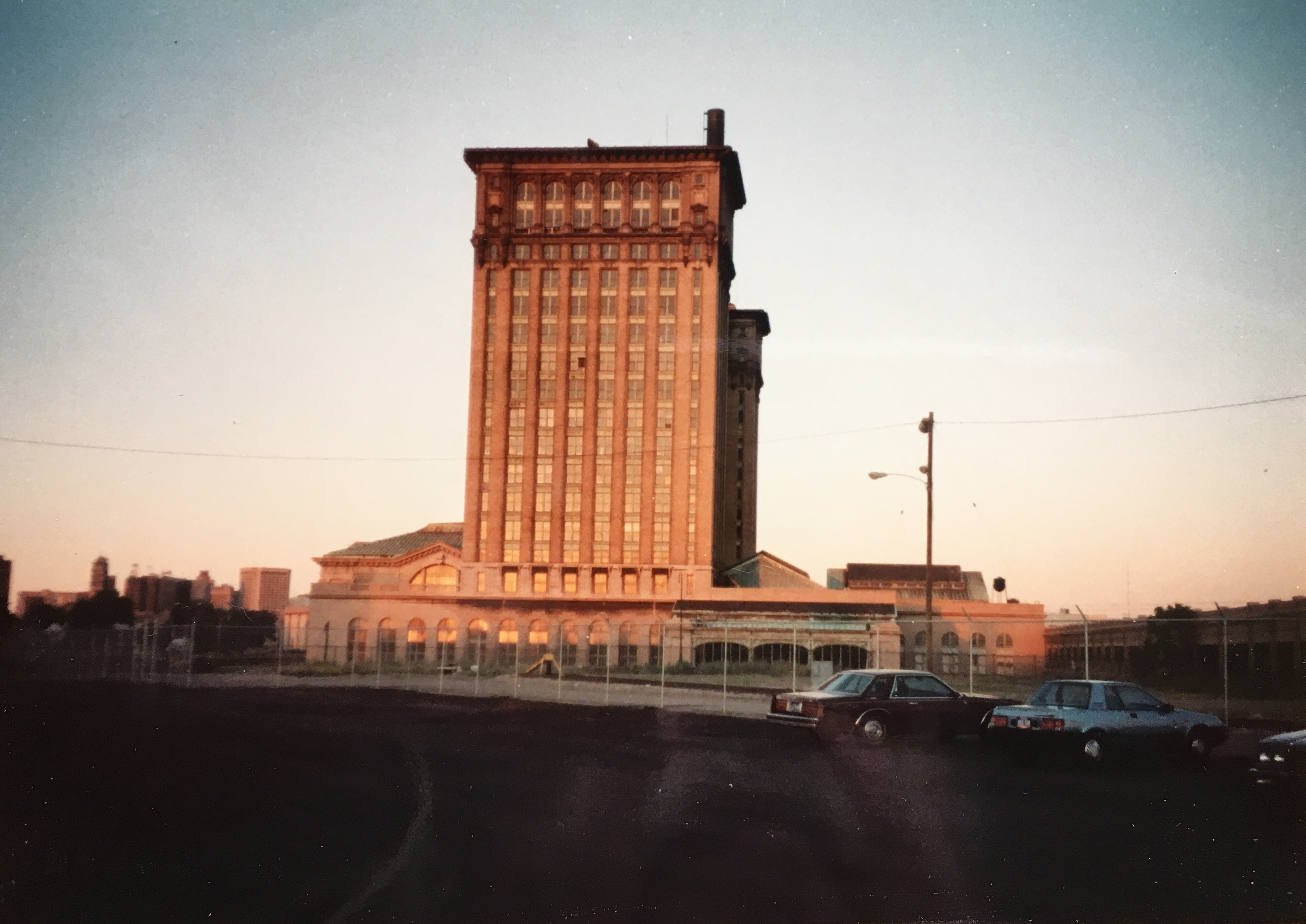 Michigan Central Station, Detroit, in the summer of 1988